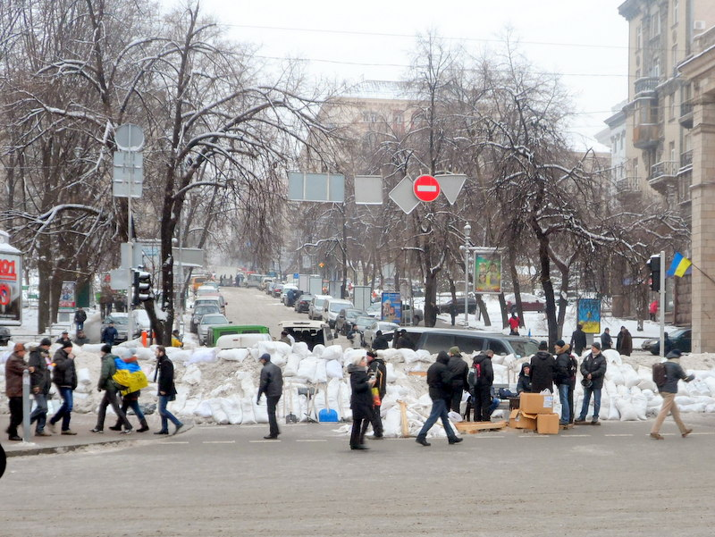 Barricade of snow and ice erected by protesters on corner of Khreshchatyk/Proryzna (Kiev) in the night of 11-12.12.2013.